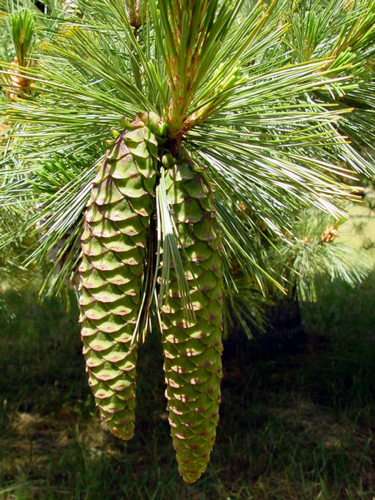 Pinus monticola mature closed seed cones